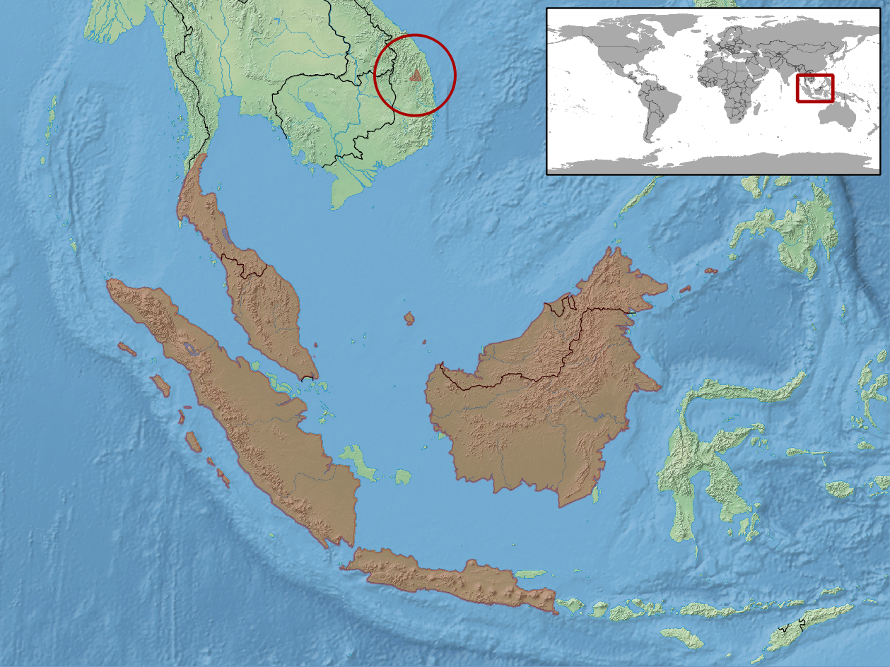 geographic distribution of Boiga drapiezii (Native: Brunei Darussalam; Indonesia (Jawa, Kalimantan, Sumatera); Malaysia (Peninsular Malaysia, Sabah, Sarawak); Philippines; Singapore; Thailand; Viet Nam)